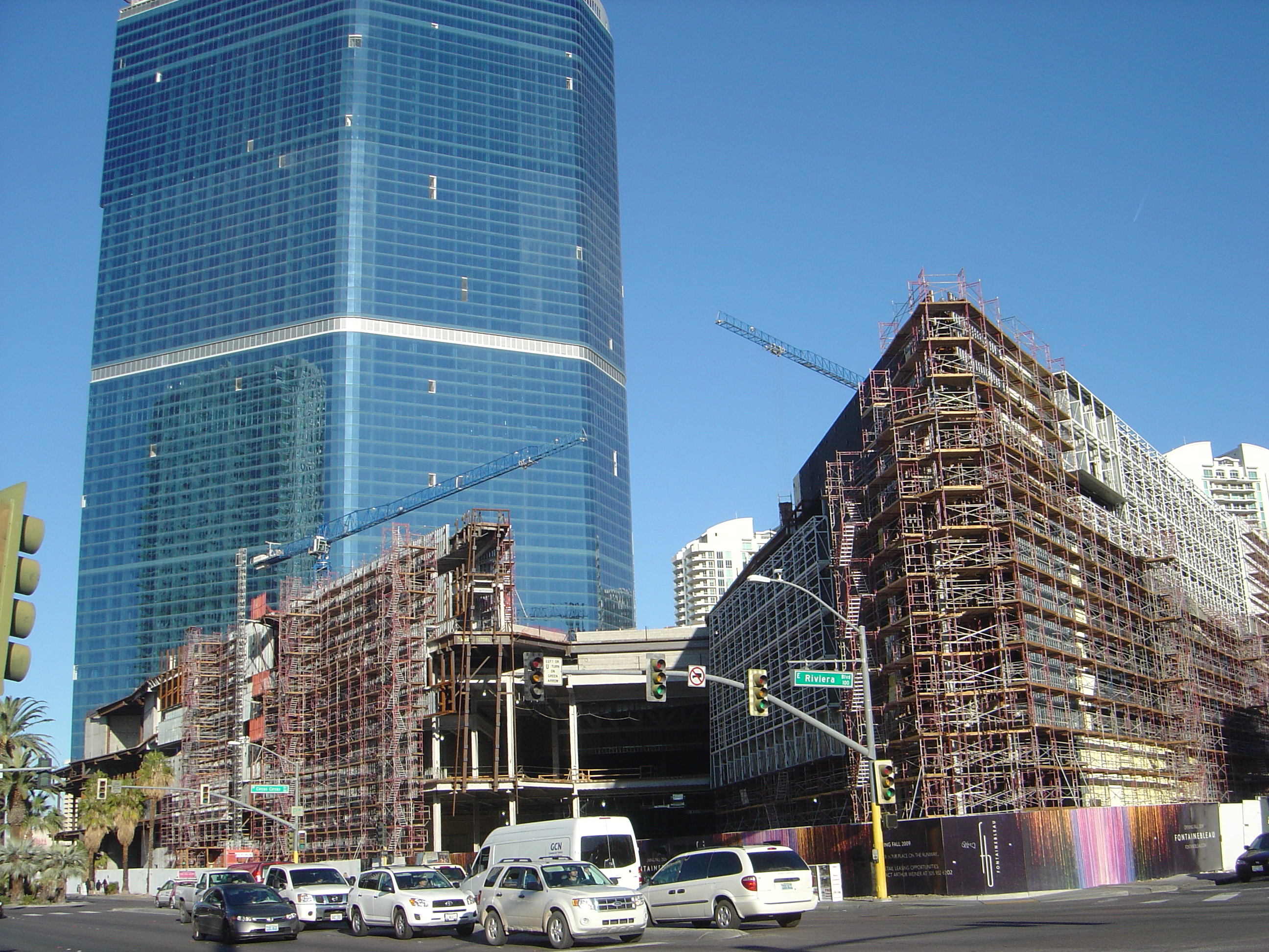 The Fontainebleau Resort tower on the Las Vegas Strip, built on the former land of the El Rancho hotel-casino. Part of the Fontainebleau (lower right) occupies land previously held by the Algiers Hotel.